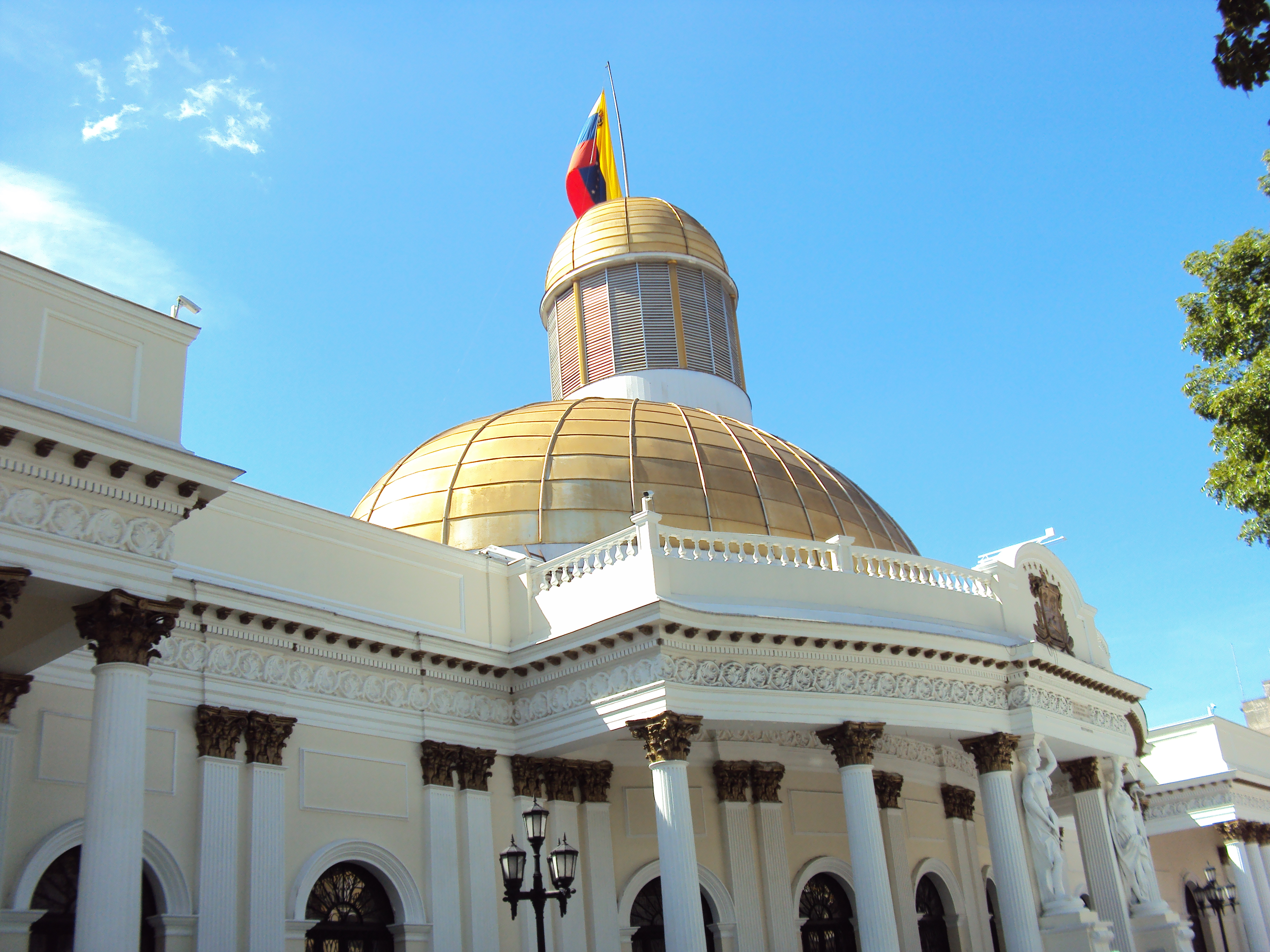 Casco Historico de Caracas